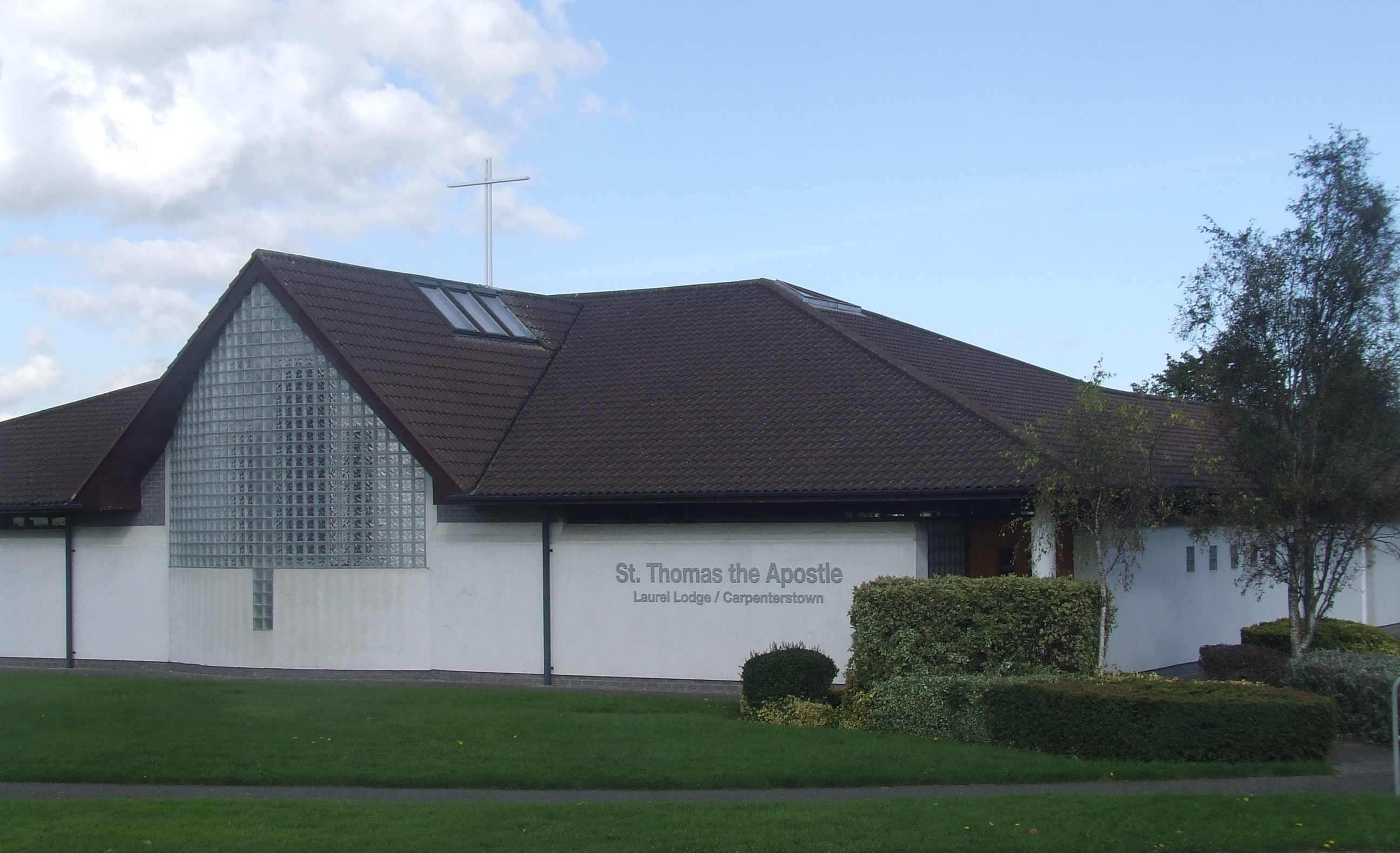 Church of St Thomas, the Apostle, Laurel Lodge / Carpenterstown in the Roman Catholic Archdiocese of Dublin. South-western elevation.